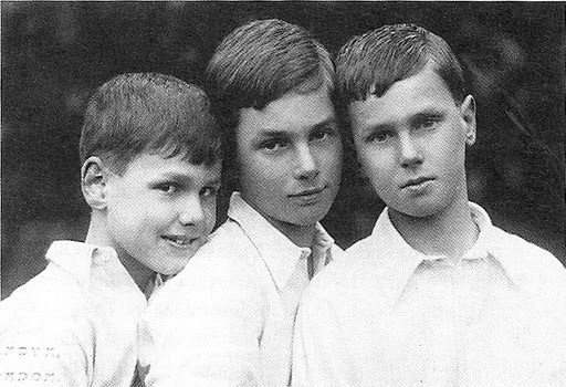 The three sons of Infanta Beatrice, Duchess of Galliera (nee Princess Beatrice of Saxe-Coburg-Gotha, aka Baby Bee) and her husband Infante Alfonso, Duke of Galliera. L-R: Infantes Ataulfo, Alonso, and Alvaro. Alonso, unmarried and childless, was KIA in the Spanish Civil War in 1936. In 1974 Ataulfo also died without wife or children, leaving only Alvaro, the eldest, to carry on the family line.